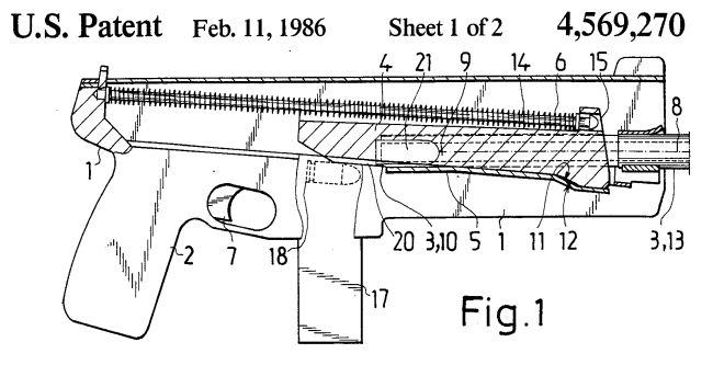 US Patent for Finnish JaTiMatic Sub Machine Gun